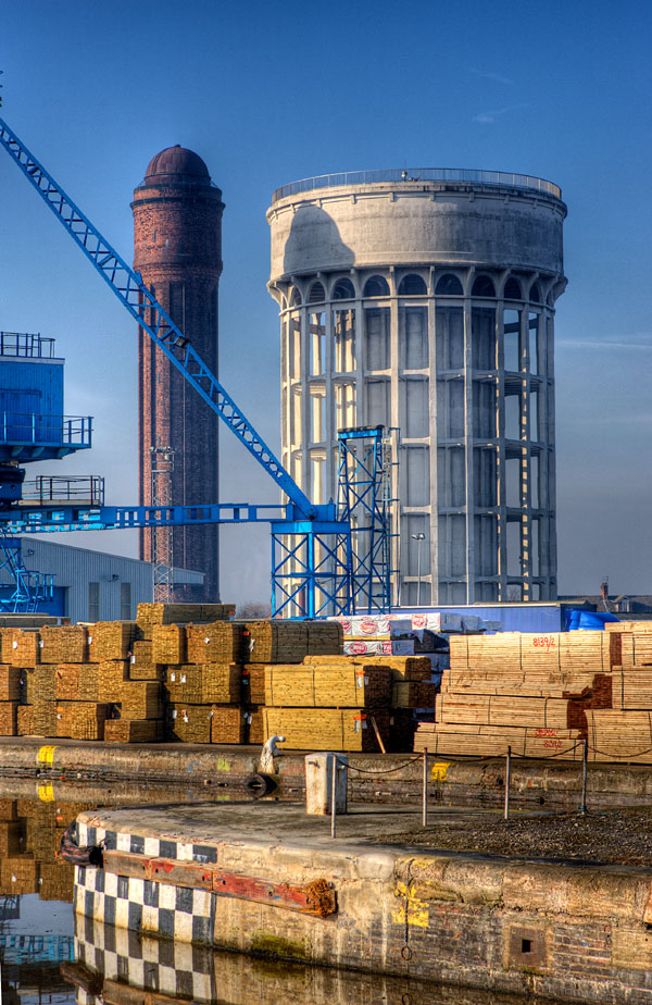 Goole's twin water towers, dubbed the 'salt and pepper pots', Goole, East Riding of Yorkshire, England.Taken on the 17th of April 2009.